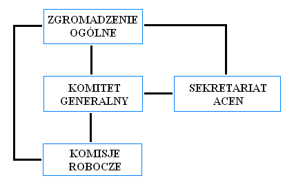 ACEN structures